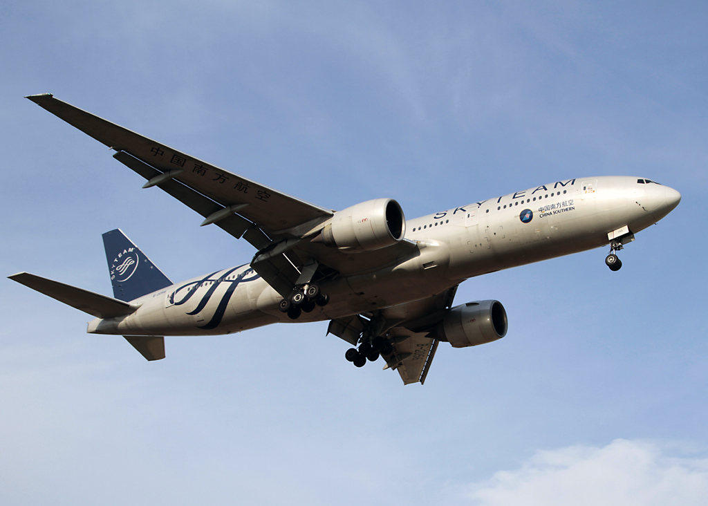 China Southern Airlines Boeing 777-200ER in SkyTeam livery.